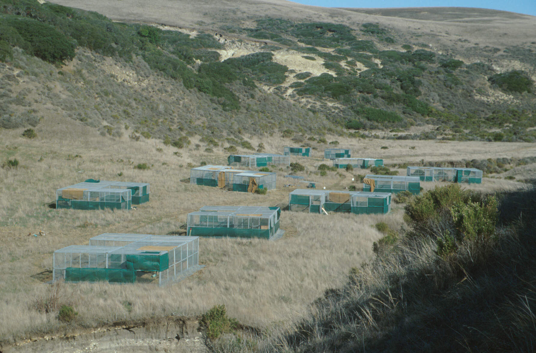 Windmill Canyon breeding site on Santa Rosa Island, California